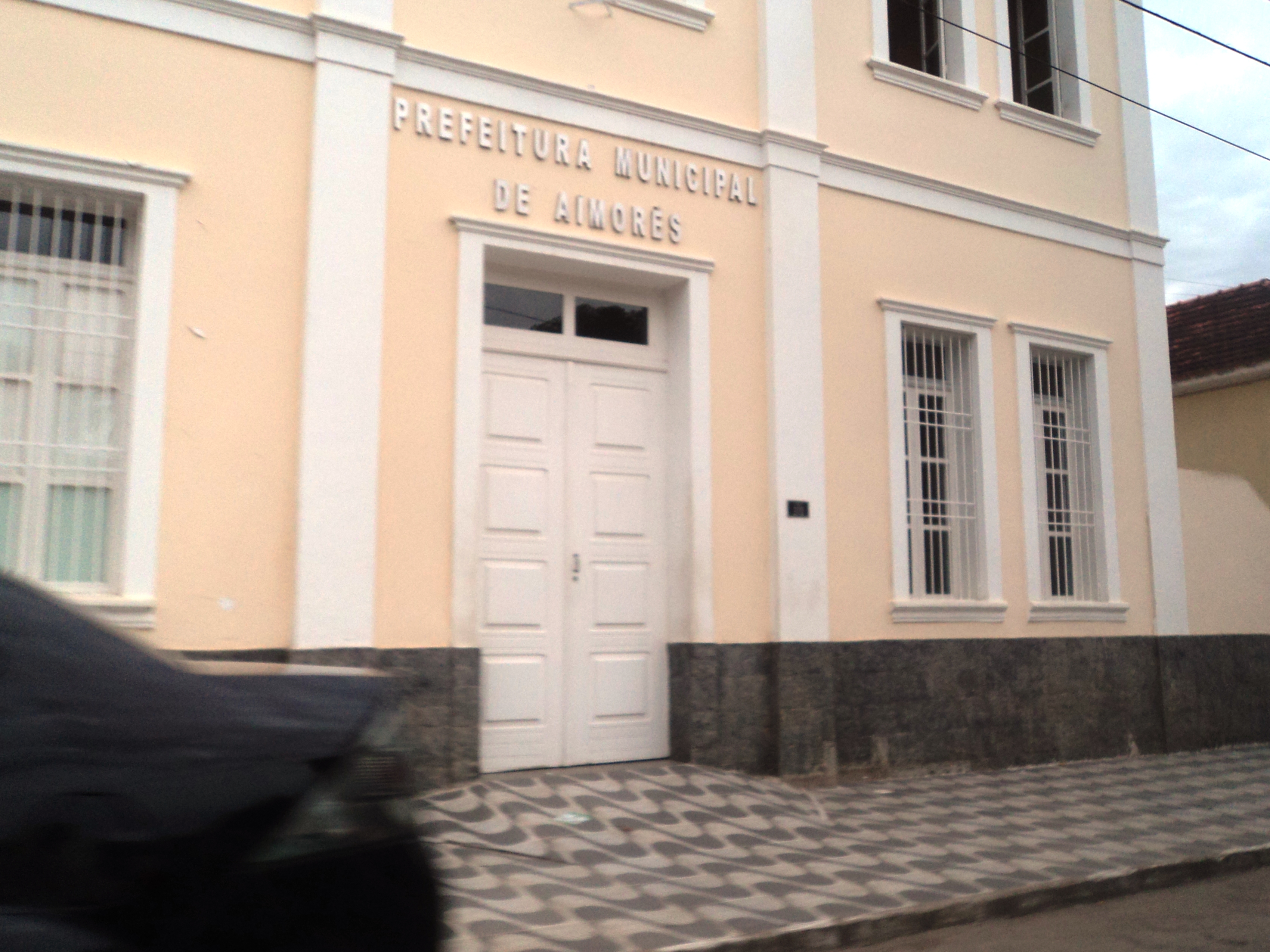 Partial view of the City Hall of Aimorés, Minas Gerais, Brazil.